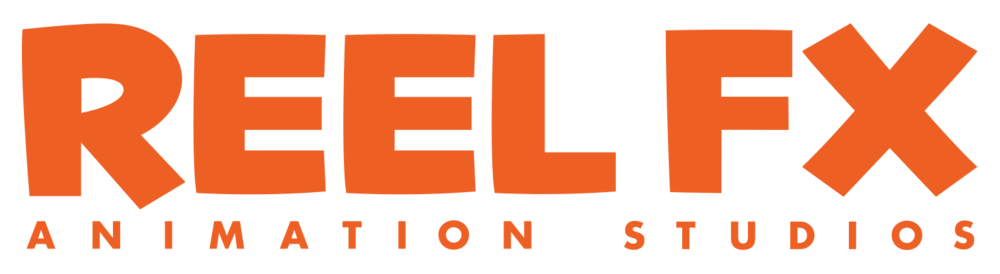 Logo of an American animation studio Reel FX Animation Studios